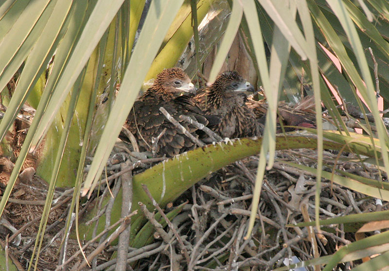 Black Kite Milvus migrans Palmyra Palm Borassus flabellifer in Kolkata, West Bengal, India.